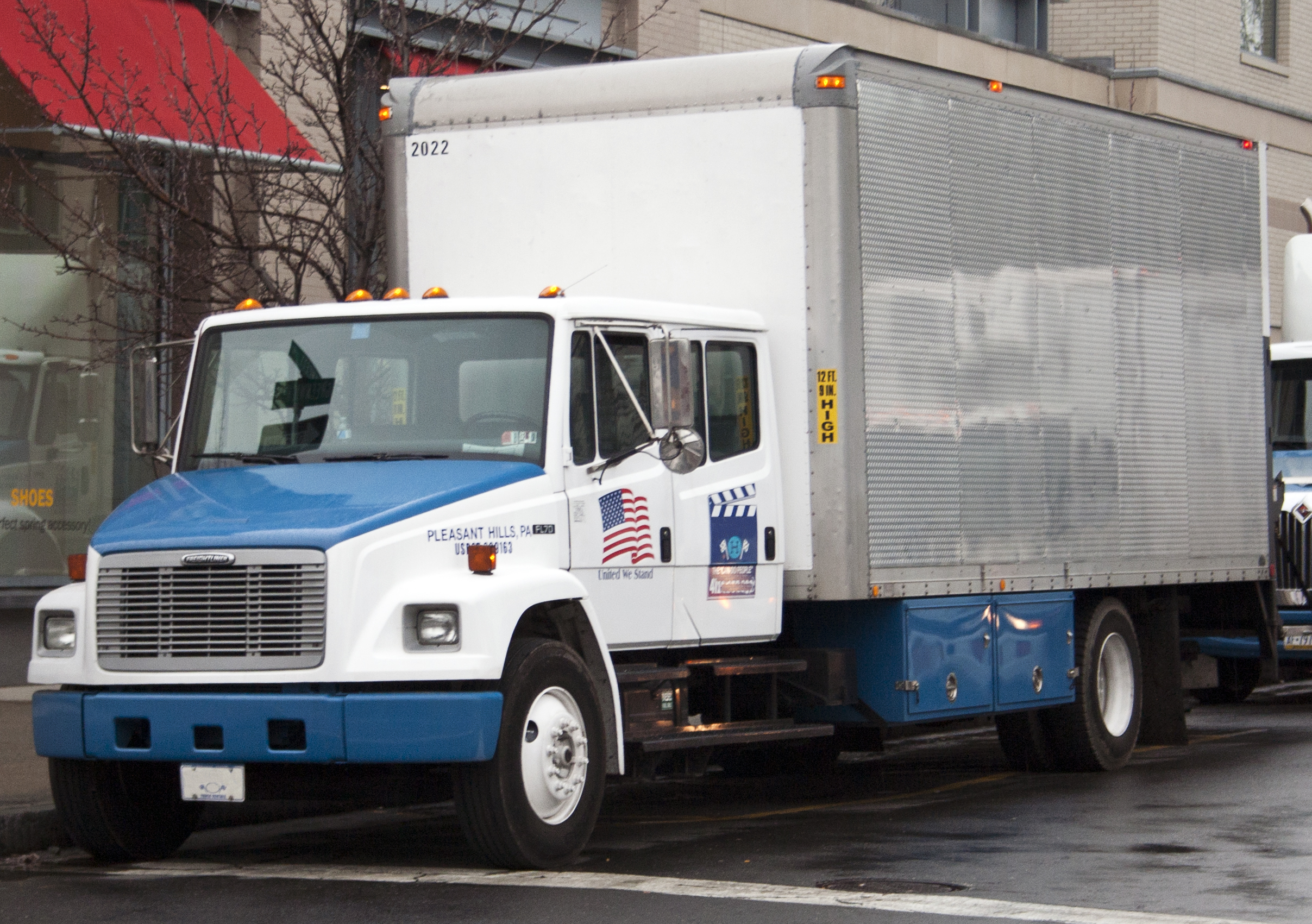 2003 Freightliner FL70, a Class 6 truck. This particular example has a Caterpillar 3126/CFE engine, an inline-six diesel engine of 7.2 litres (439 ci) and was assembled in Mt. Holly, NC. It was delivered as an unfinished vehicle, it is unknown where the rear bodywork was added.